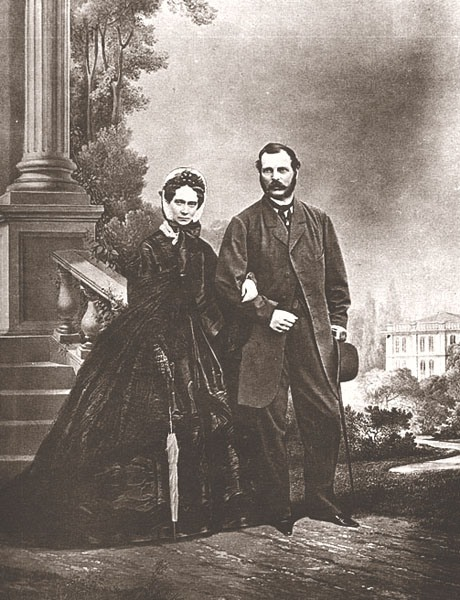 Maria Alexandrovna, Alexander II